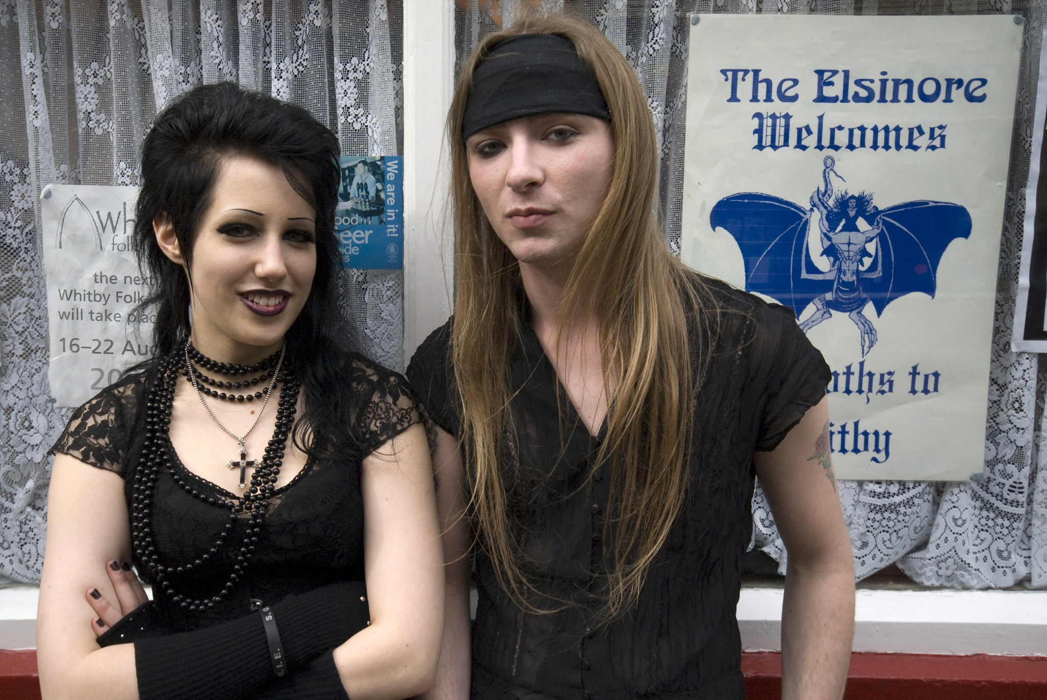 Goth weekends